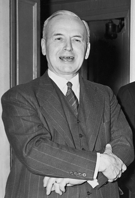 Portrait of Cornell University President Edmund Ezra Day in 1947 cropped from Smithsonian archives SIA Acc. 90-105 [SIA2008-5931]